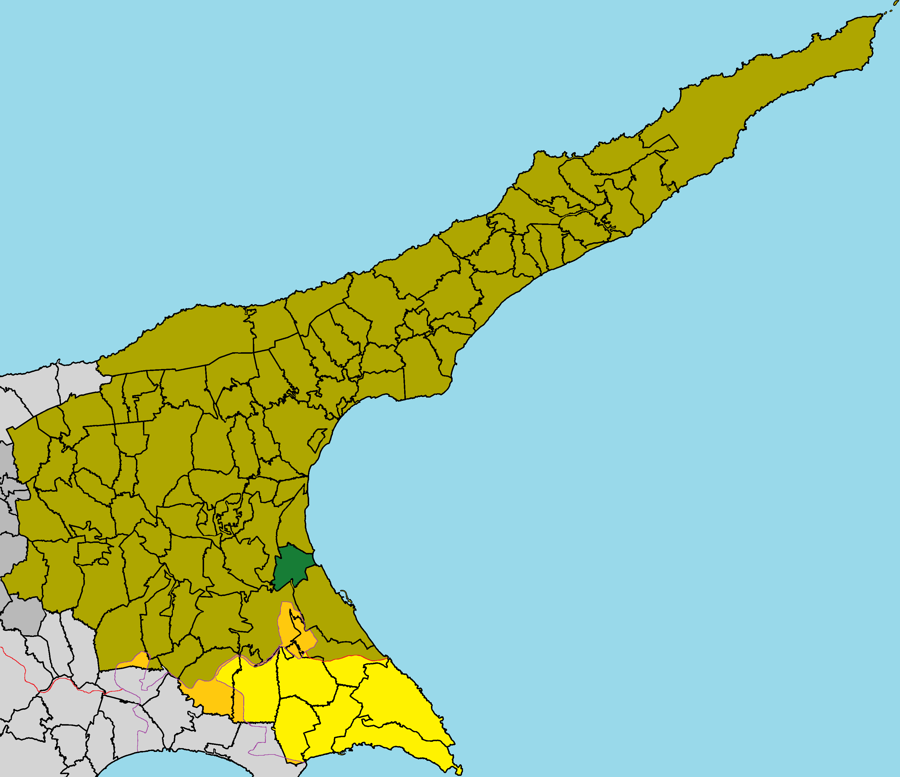 Egkomi Ammochostou in Famagusta District (de jure).